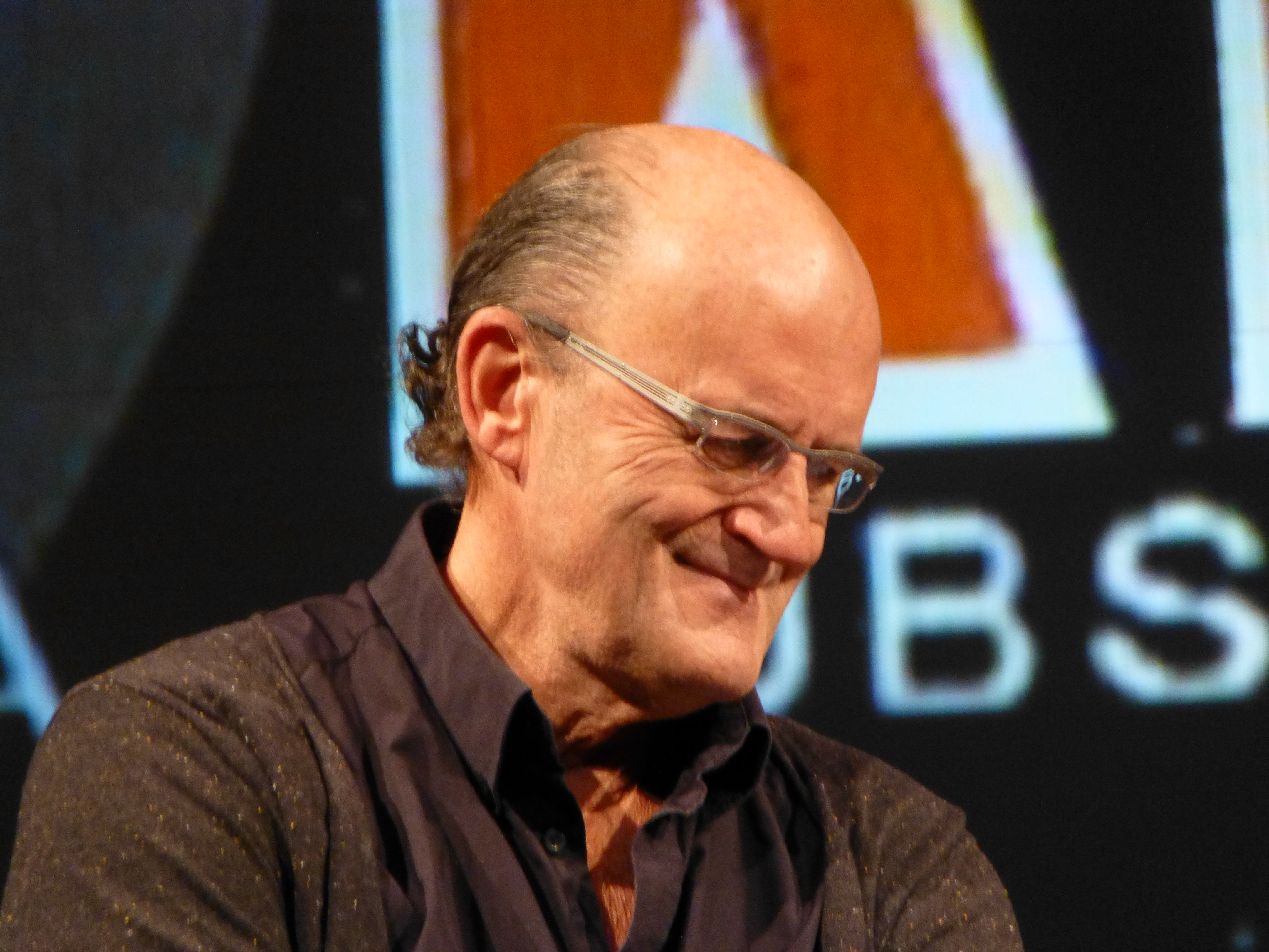 Ted Robinson (born 1944), Australian television director and producer of many comedy programs for the Australian Broadcasting Corporation (ABC).